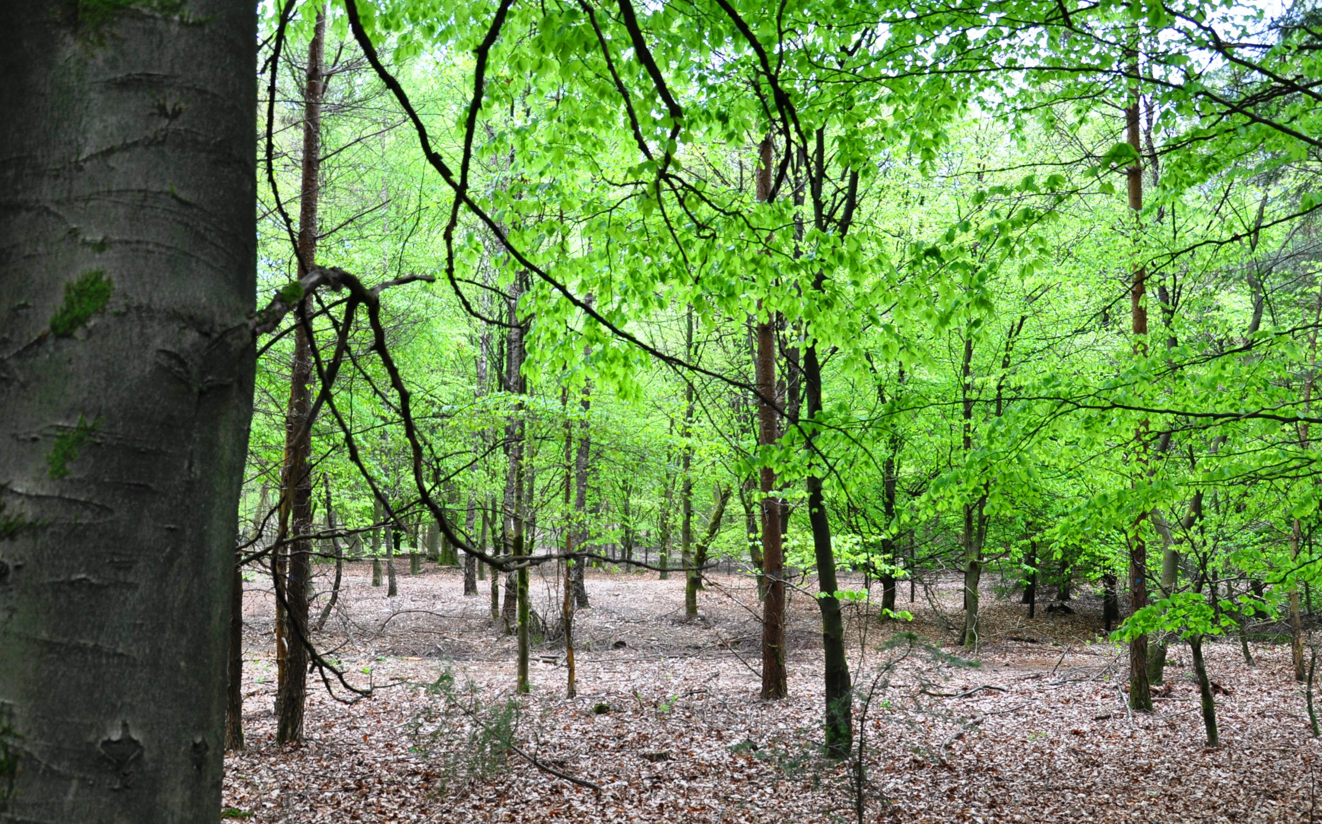 young green leaf in the woods of Hoge Veluwe National Park